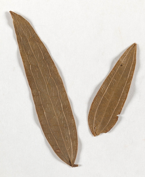 Leaves of Smilax glyciphylla from Botany Bay used as tea by escaped convict Mary Bryant